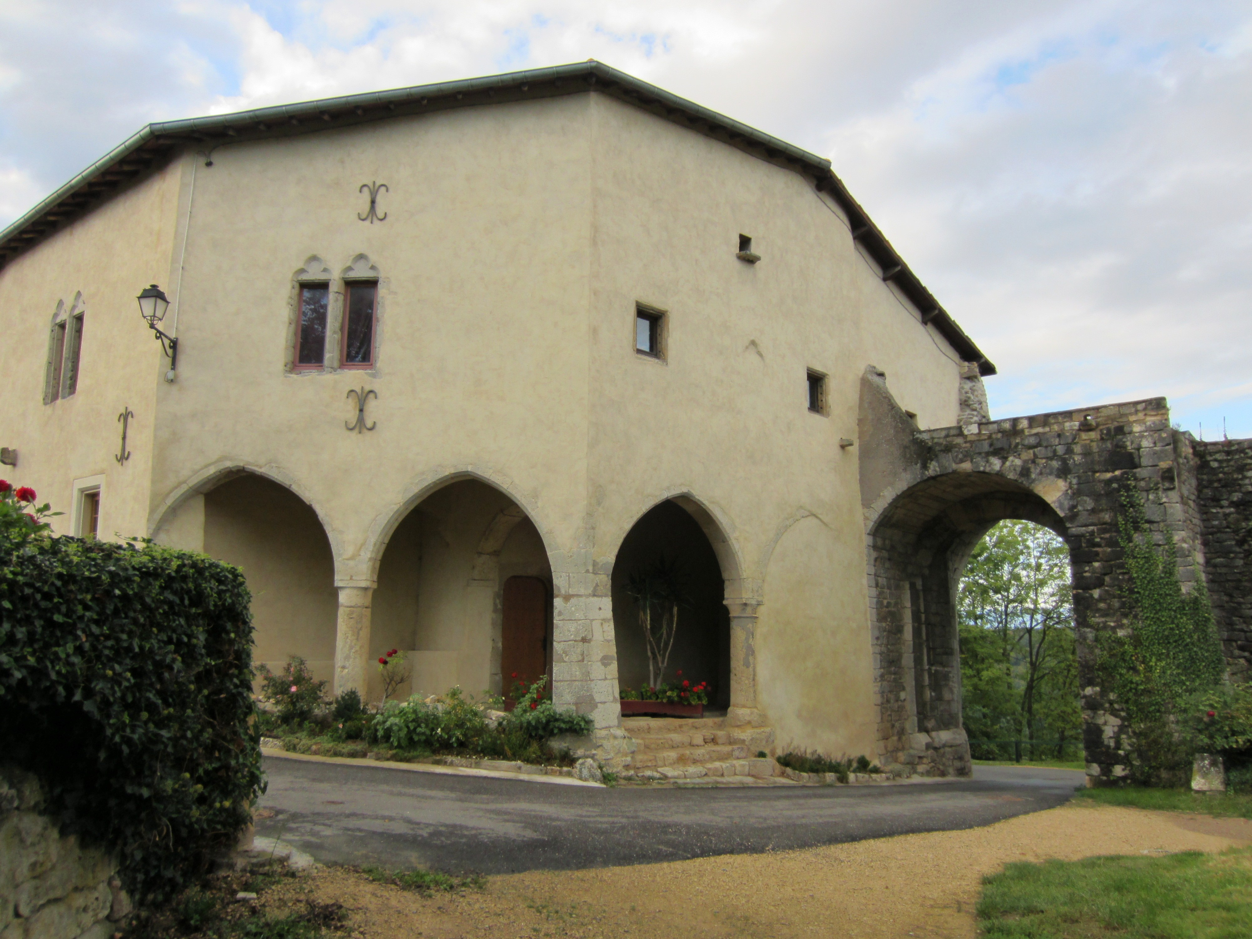 Description porte interieur chateau Preny Date2 January 2012Sourcemon appareil photoAuthorAimelaimePermission(Reusing this file) porte interieur chateau Preny